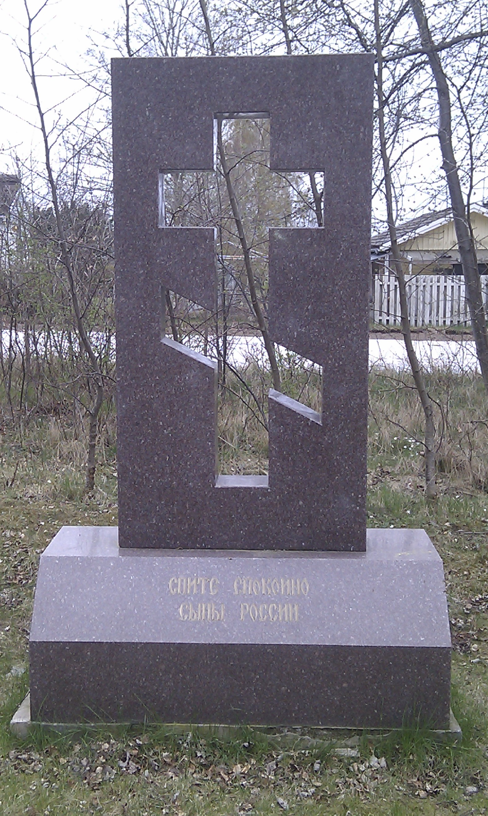 Russian monument at Russian Cemetery on Swedish island Visingsö